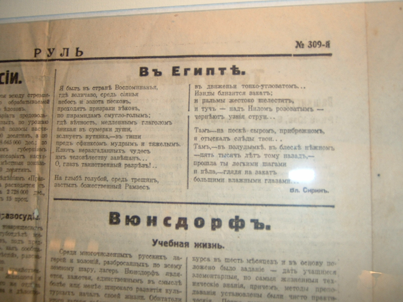 First publication of Nabokov (in newspaper Rul') Colection of Nabokov House